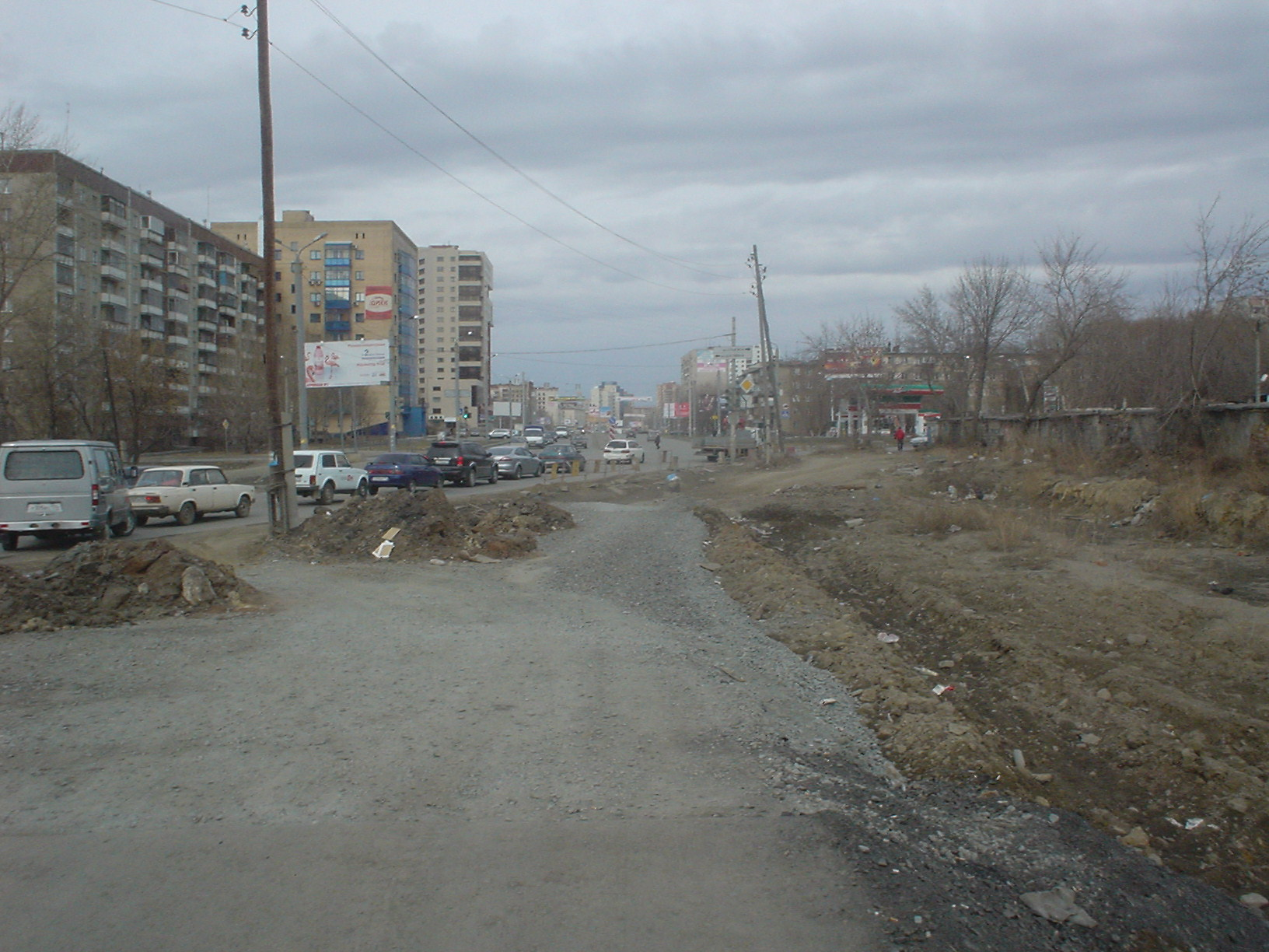 Kurchatova street, Chelyabinsk, Russia.